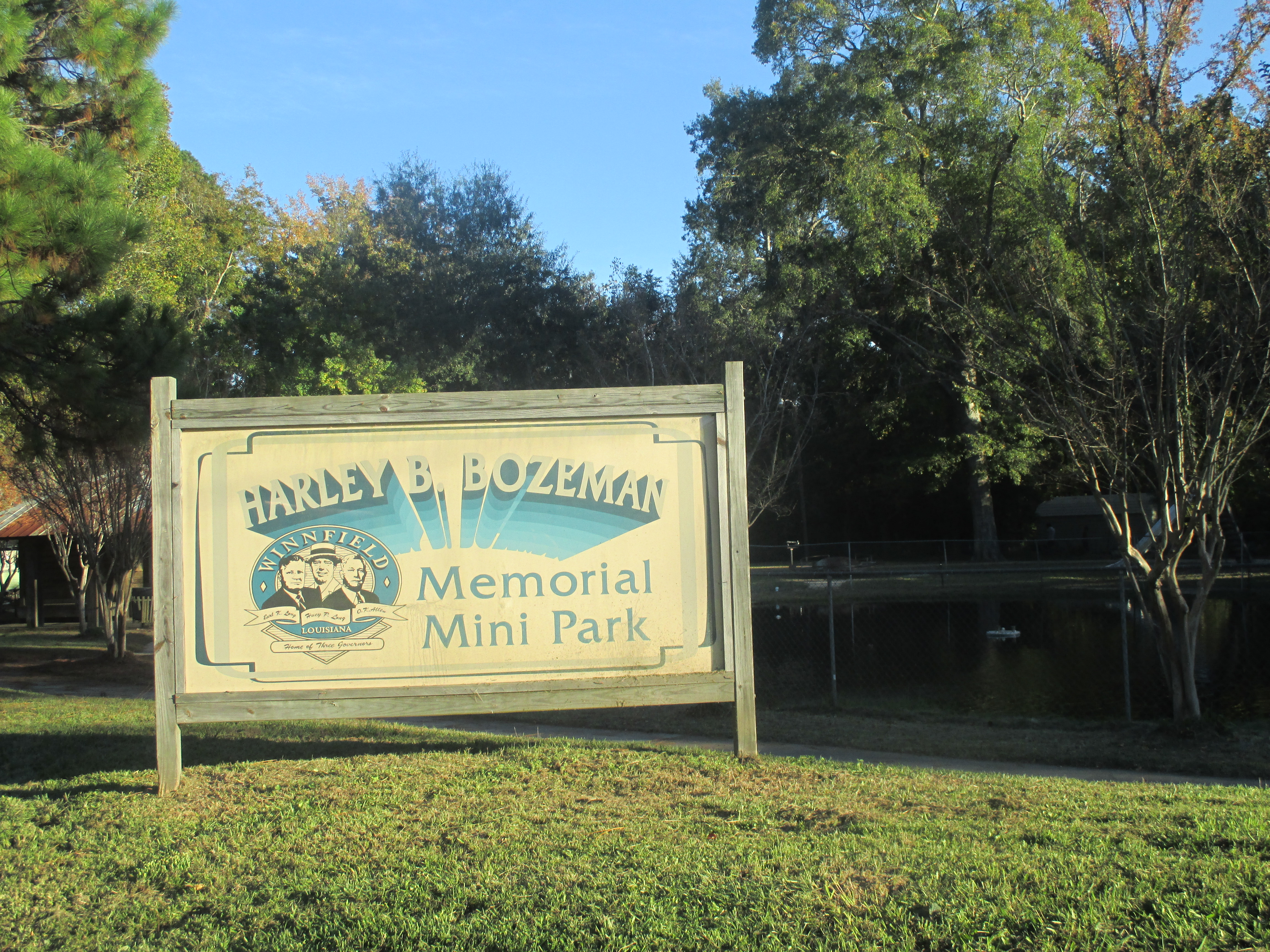 I took photo with Canon camera of Harley Bozeman Memorial Mini-Park in Winnfield, LA.